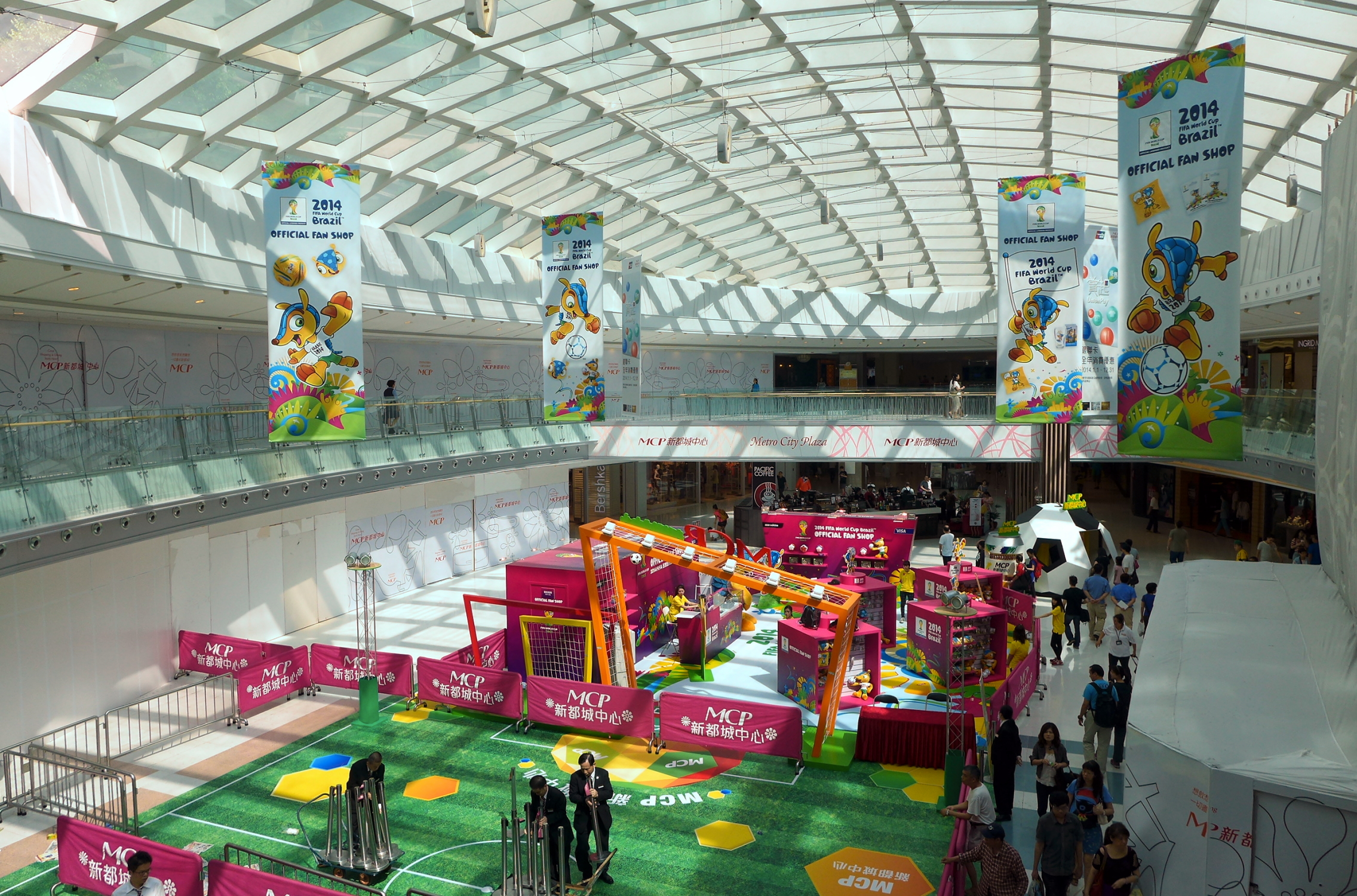 Metro City Phase 2 Main Atrium